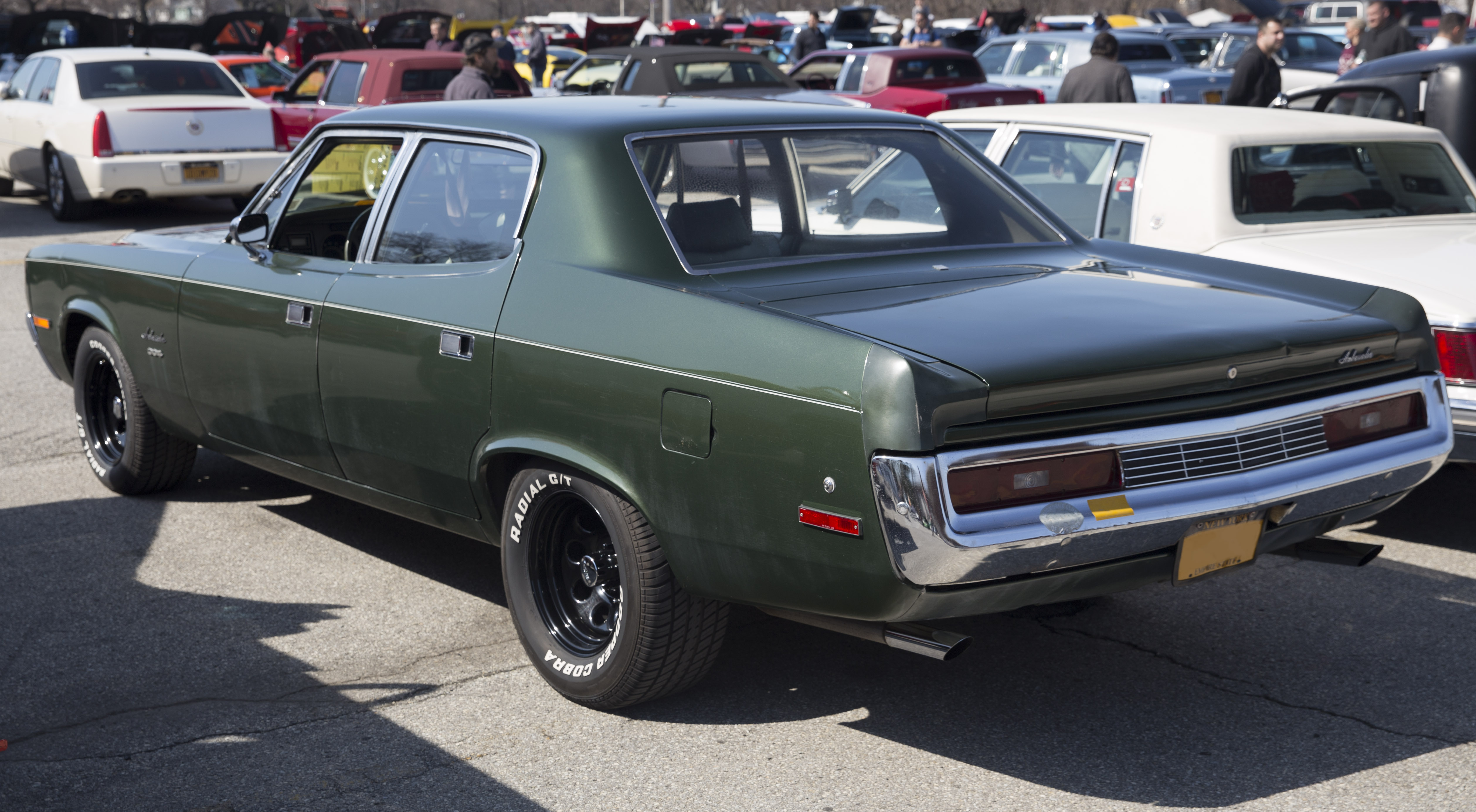 A 1970 AMC Ambassador four-door sedan at the Belmont Race Track. Column-mounted automatic, 150hp (210 gross) 2-barrel 304ci V8 engine.